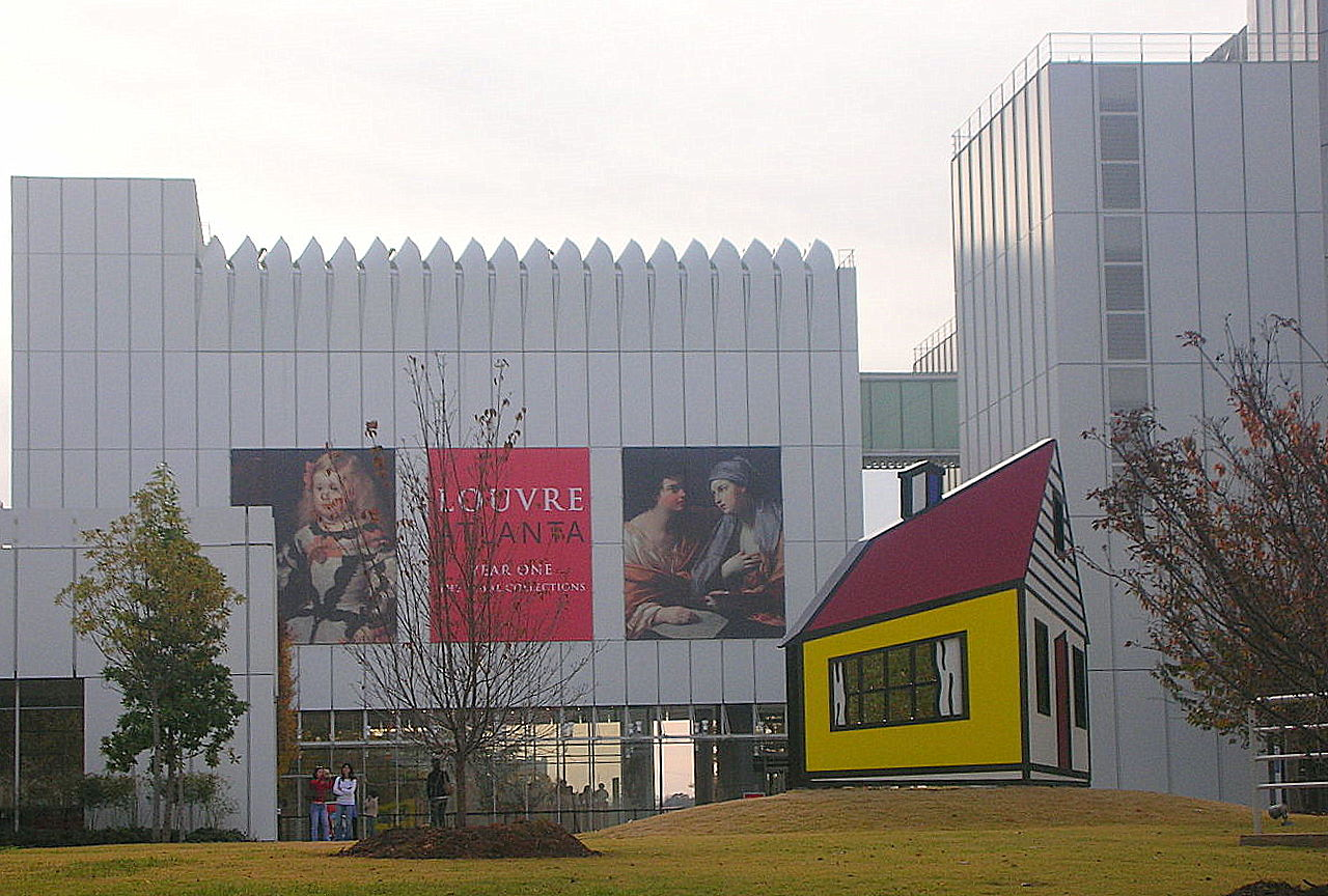 Category:Images of Atlanta, Georgia